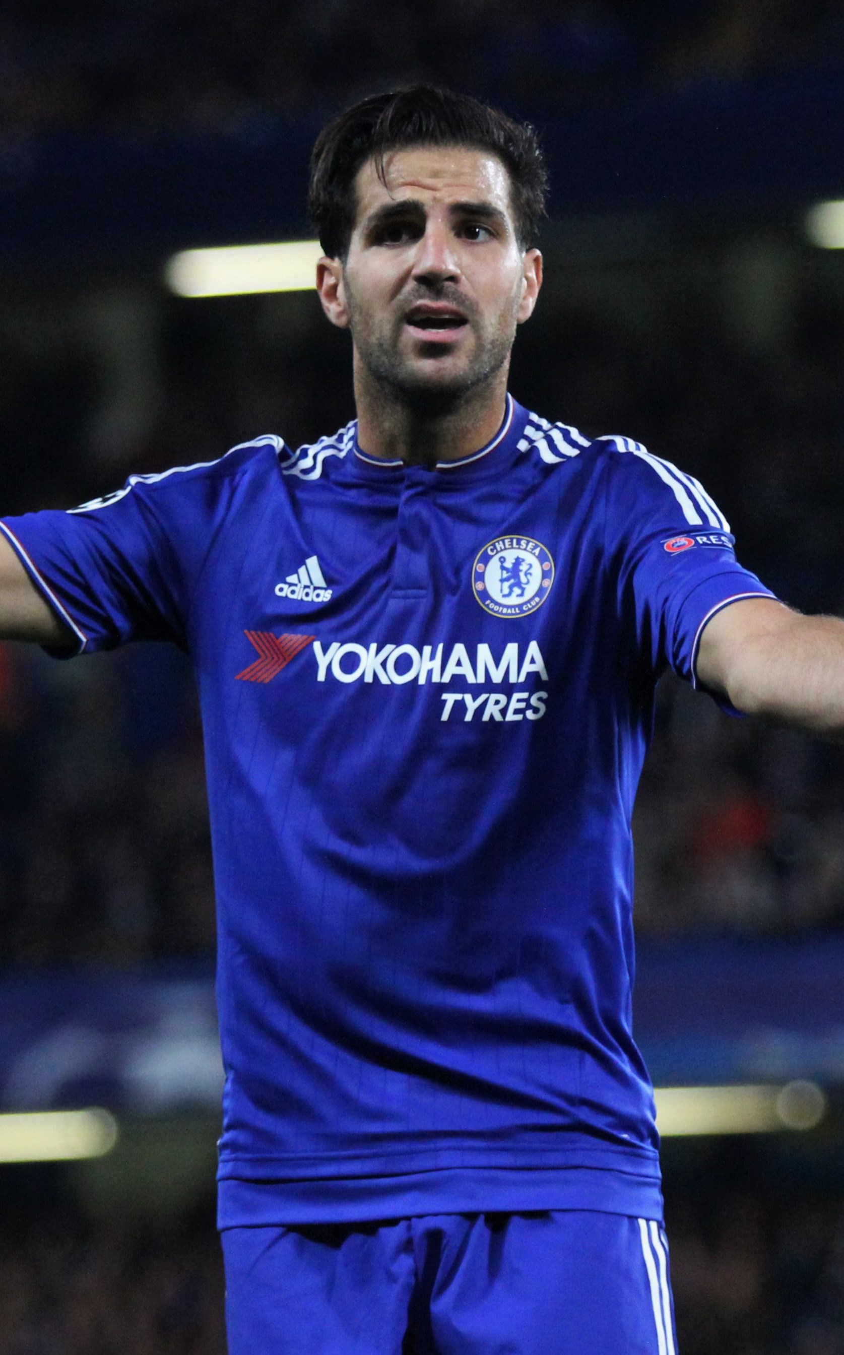 Cesc Fàbregas of Chelsea complains to an official during a UEFA Champions League match against Maccabi Tel-Aviv.